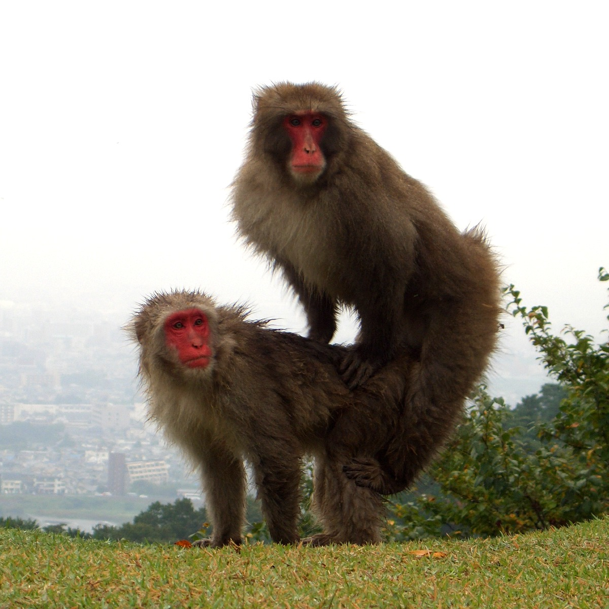 Mating Japanese Macaque. Arashiyama Monkey Park Iwatayama.